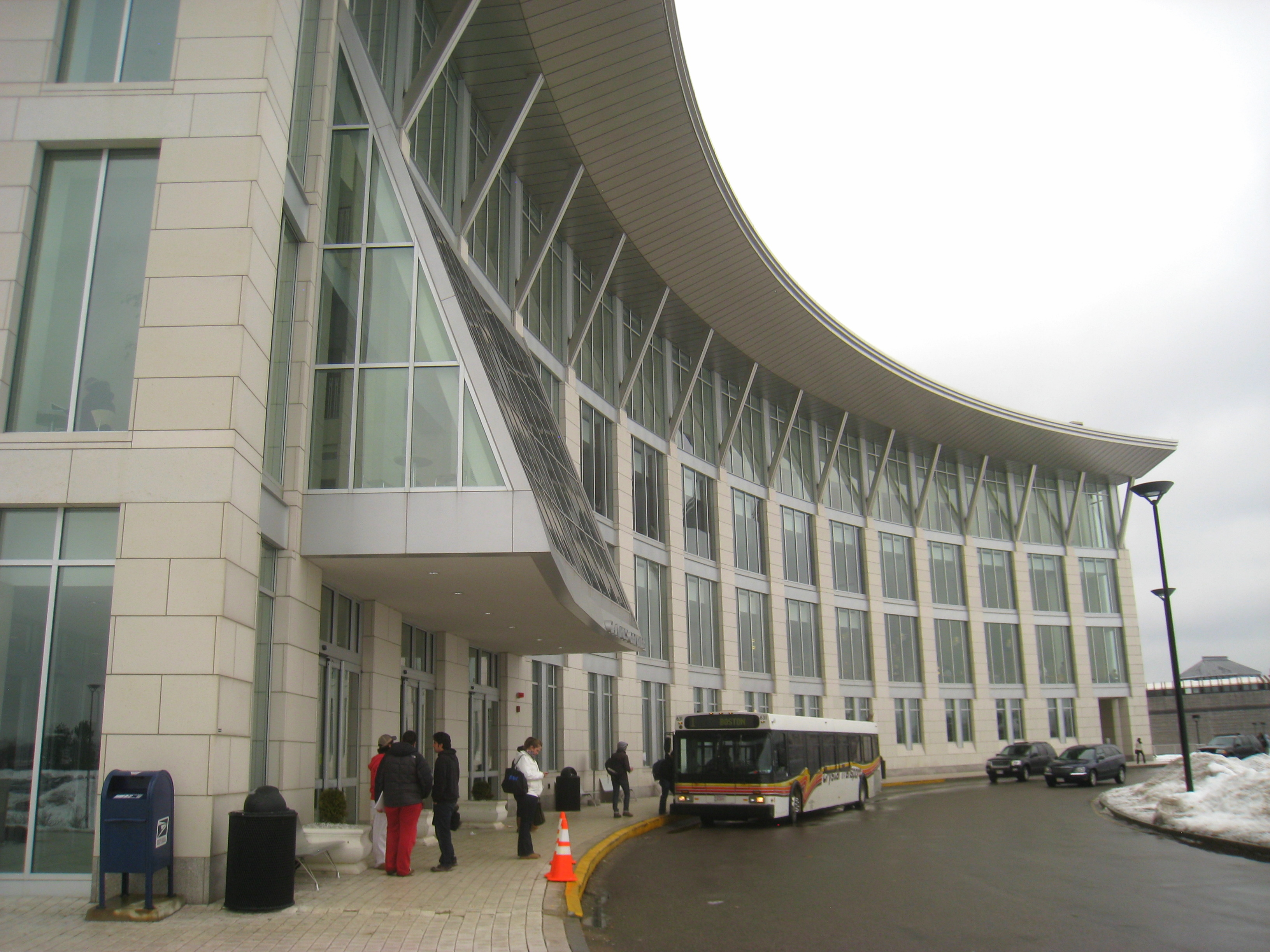 University of Massachusetts Boston, Boston, Massachusetts, USA.